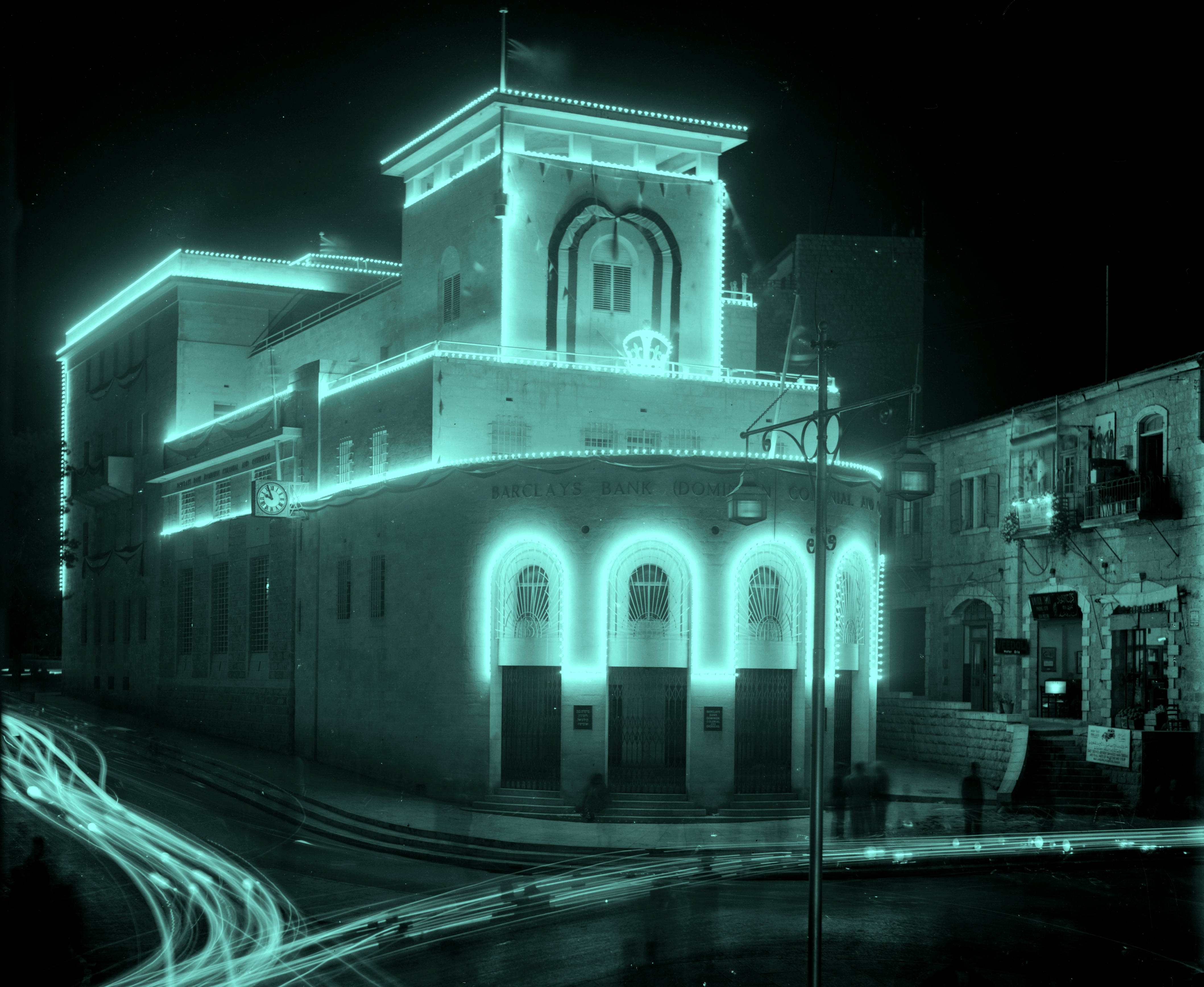 Coronation King George VI. Illuminations. May 12, 1937. Barclay's Bank. Tzahal square in Jerusalem